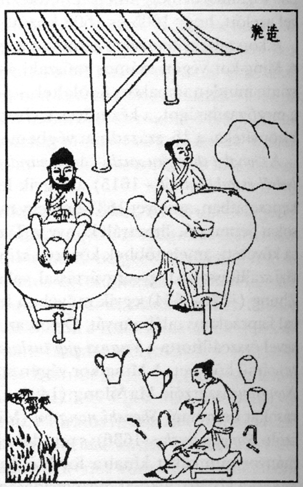 Illustration from the Chinese book Tiangong kaiwu